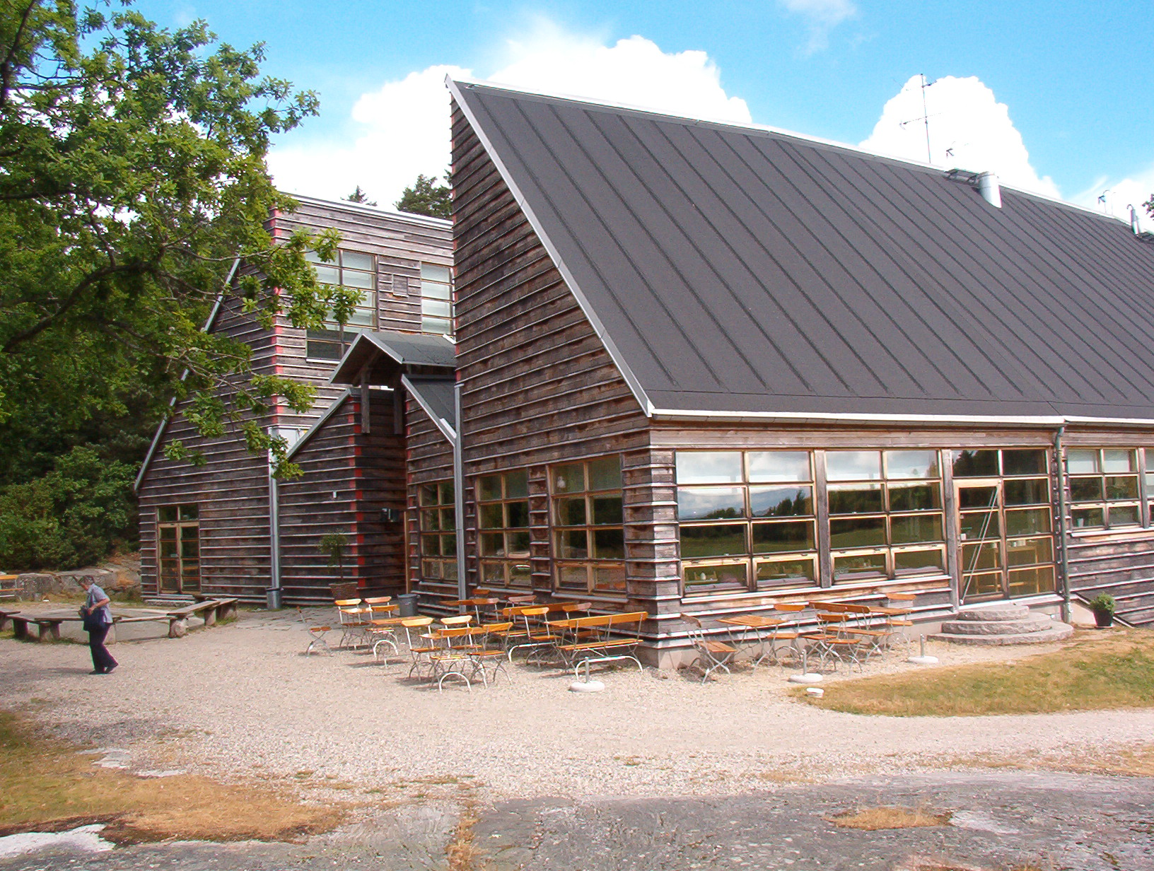 Date: July 2005